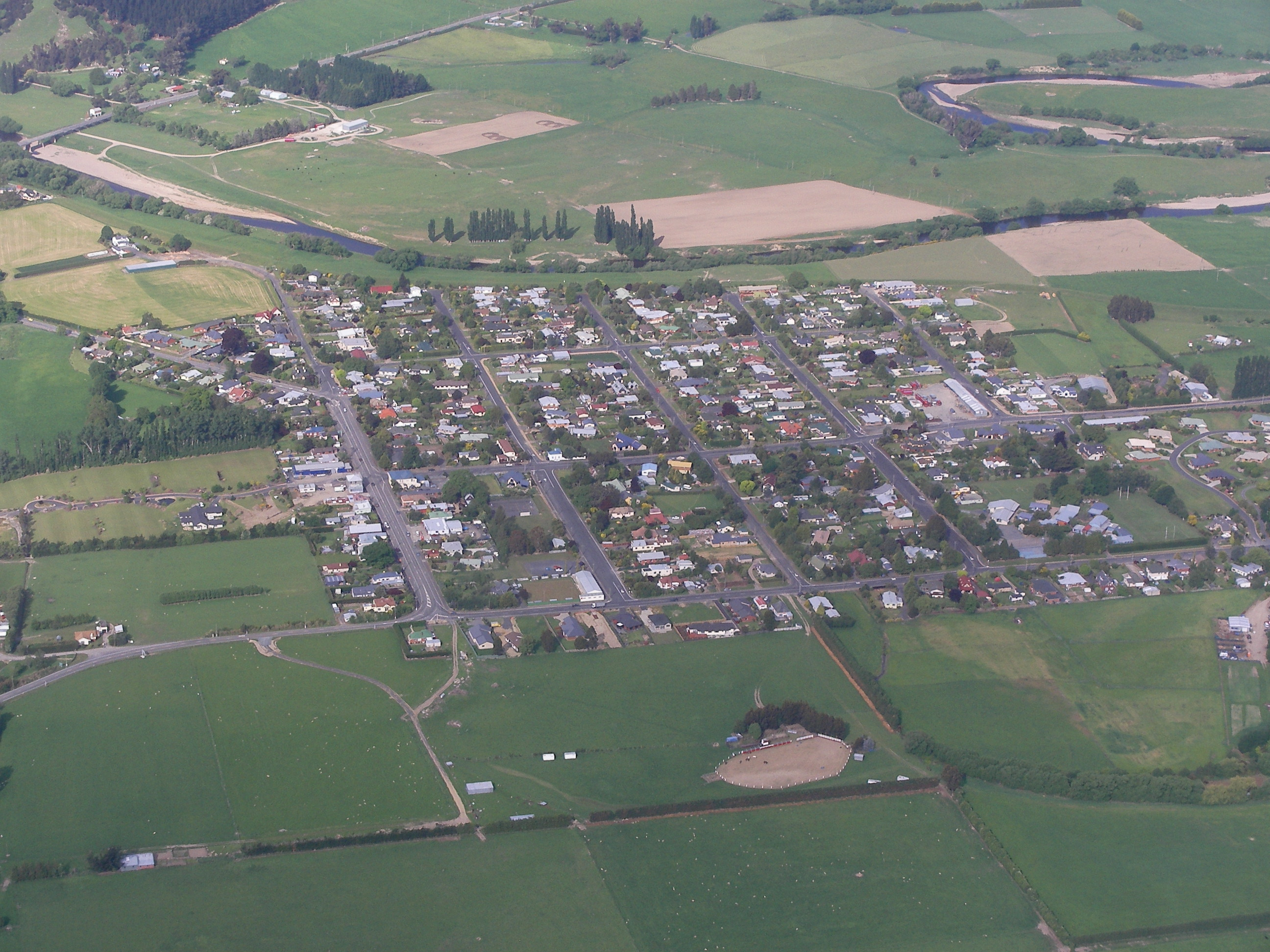 The town of Outram (Otago New Zealand) taken from the air in a GA8 aircraft owned by Glenorchy Air